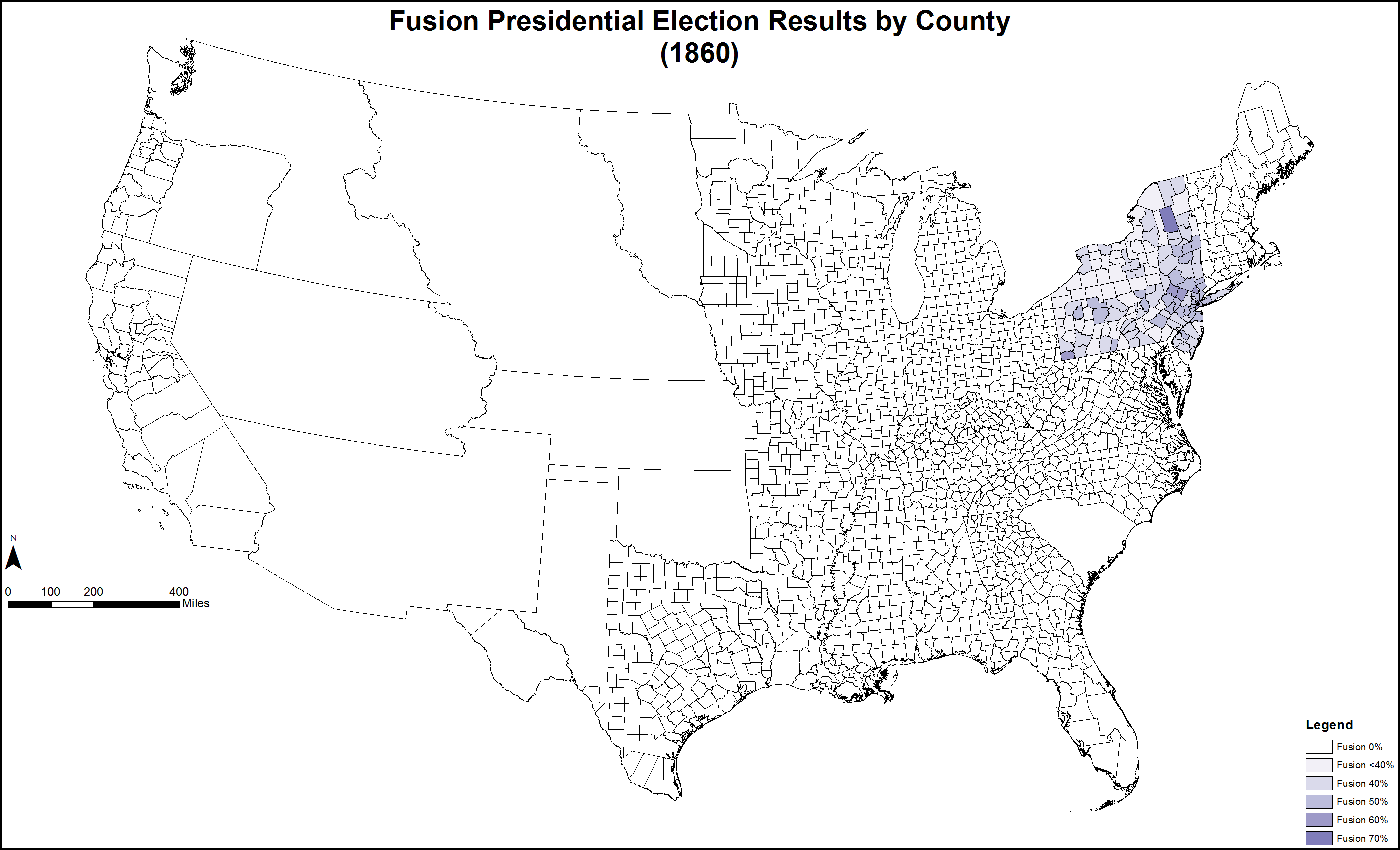 Fusion presidential election results by county (1860). Colors based on Colorbrewer 2.0.